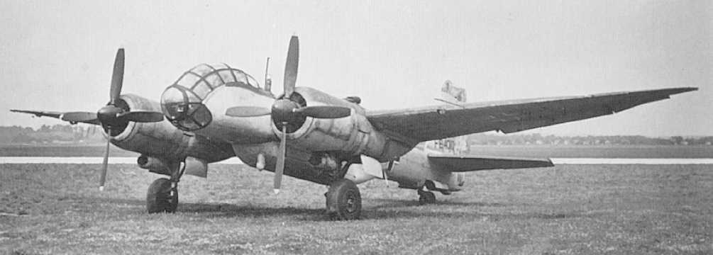 Junkers Ju 388L-1 Postwar image of captured Junkers Ju 388 wearing the USAAF Foreign Evaluation sign FE-4010.